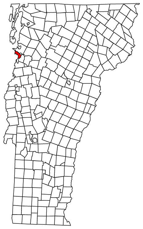 Description: Map of Vermont towns with Burlington highlighted Source: Map created by Jared C. Benedict on 26 March 2004. Copyright: © Jared C. Benedict.